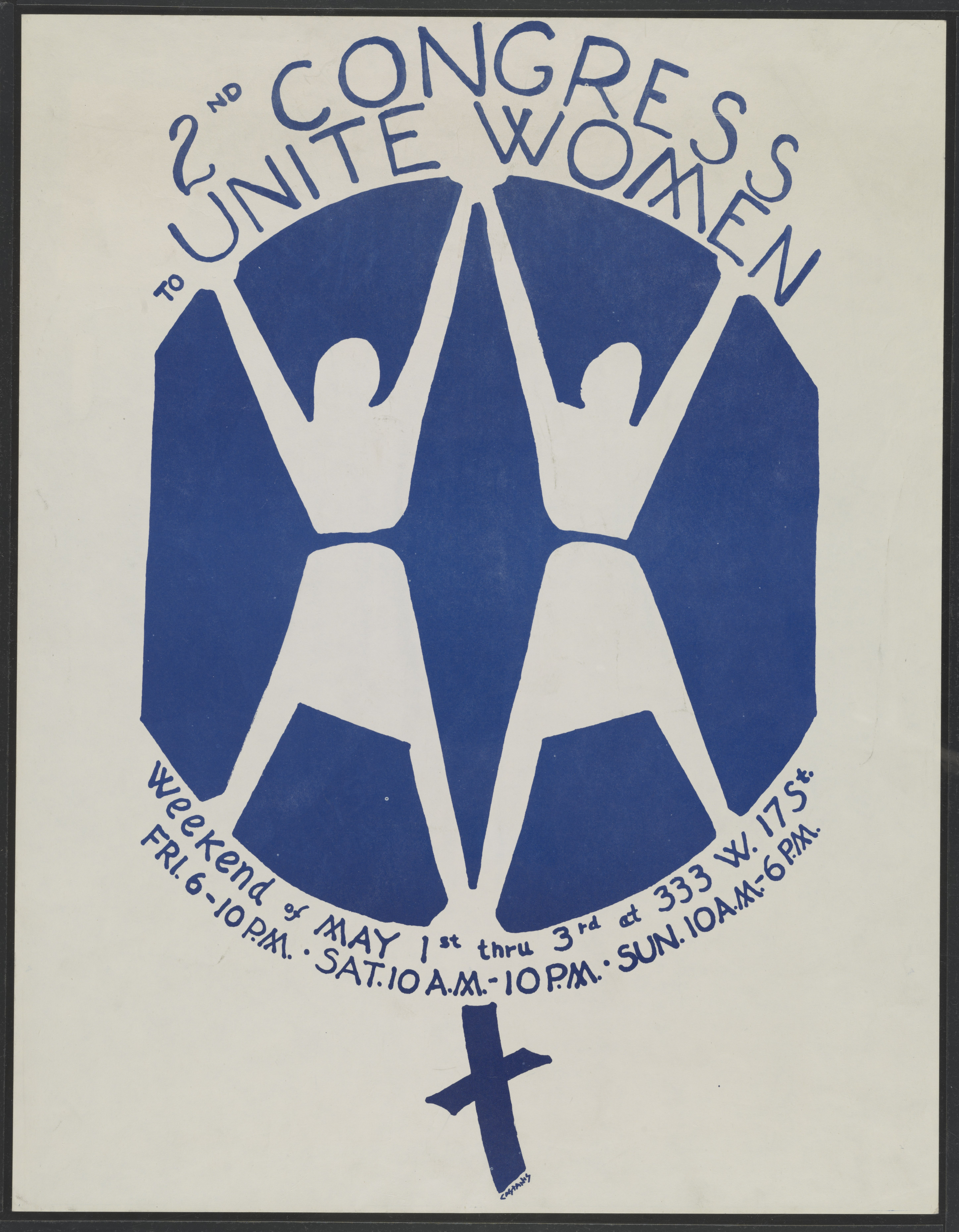 Title: 2nd Congress to Unite Women Weekend of May 1st thru 3rd at 333 W. 17 St. Abstract: 2 prints ; 58 x 45 cm. (poster format)